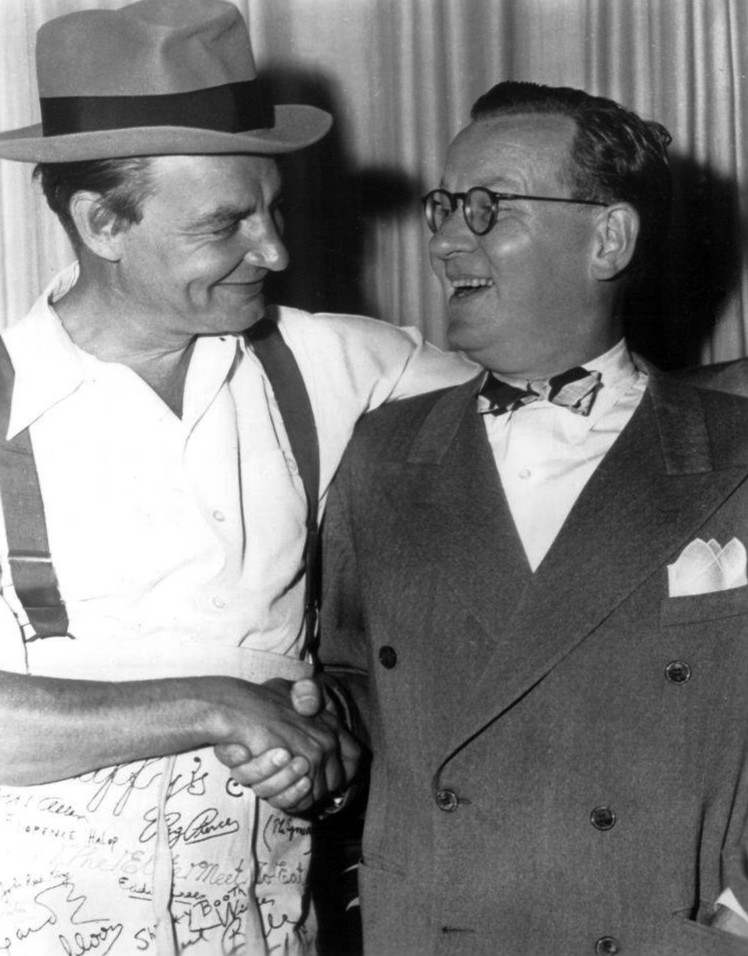 Photo of Ed Gardner as Archie from the radio program Duffy's Tavern and Ransom Sherman, host of the radio program Nit Wit Court. As in television, radio programs took a summer hiatus, but instead of repeating previous episodes, the shows were replaced by others for the summer period. Early television also followed this pattern with summer replacement shows instead of rebroadcasts. Sherman was to be the host of the radio program that would temporarily replace Duffy's Tavern for the summer.